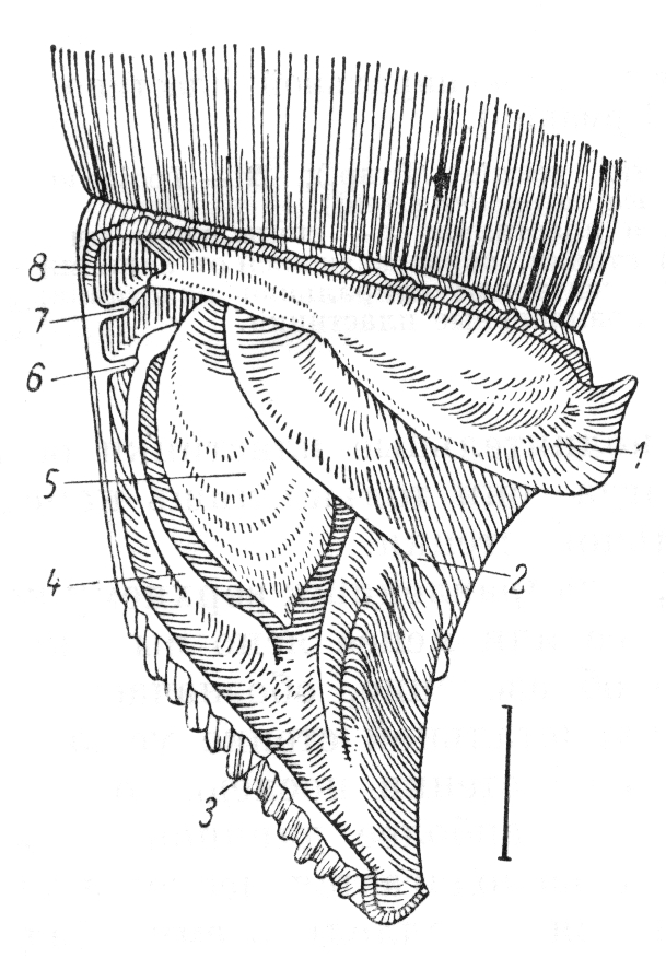 drawing of anatomy of Alinda biplicata 1 - lamella superior 2 - lamella inferior 3 - lamella subcolumellaris 4 - lunella 5 - clausilium 6 - plica medialis 7 - plica principalis 8 - lamella spiralis